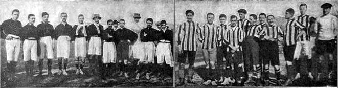 Naples-Bari, a Seconda Categoria match played in 1910.